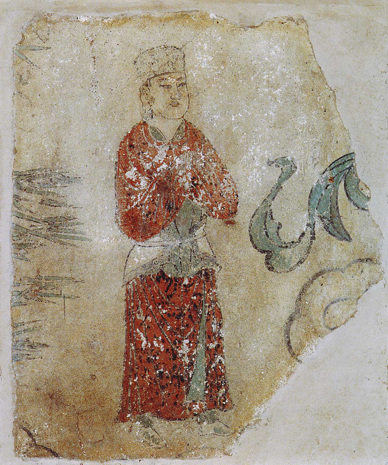 Praying man (?), China, Gansu or Ningxia (?), 10th/11th century. Height 60 cm, width 50 cm. Fragment of a wall painting. Musée national des arts asiatiques - Guimet, Paris, Inv. no. MA 480. If one accepts that the painting is from Ningxia or Gansu, the man might be a Tangut.